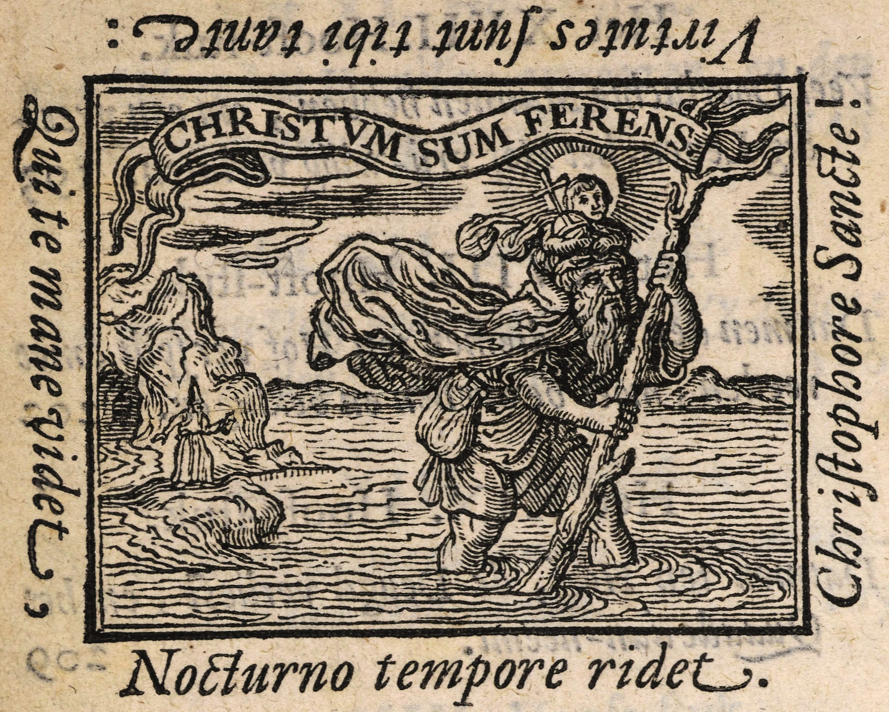 Printer's device of Christoffel Cunradus, showing the giant Saint Christopher carrying the child Jesus. On the left a man on the river bank. Text: CHRISTUM SUM FERENS. Virtutes tibi sunt tantae: Qui te mane videt, Nocturno tempore ridet. Christophore sancte! (Translation: I carry Jesus. You have so many virtues, Who sees you early in the morning, laughs at night. Holy Christopher!